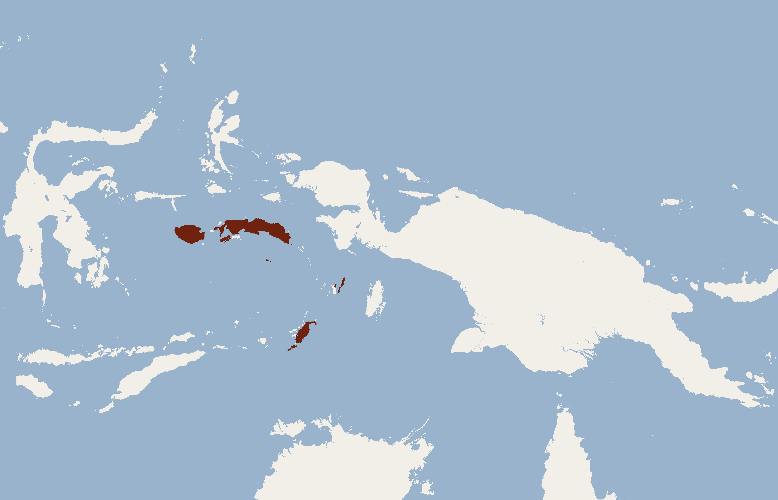 According to Flannery, 1995 & Bonaccorso, 1998